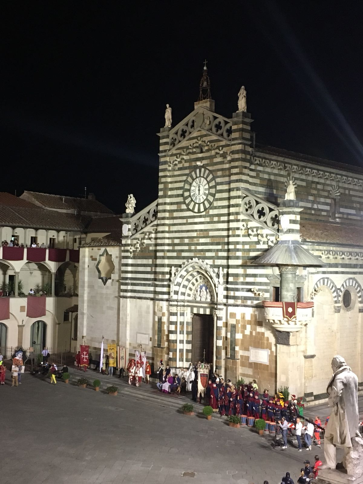 Historical Parade Prato 2018